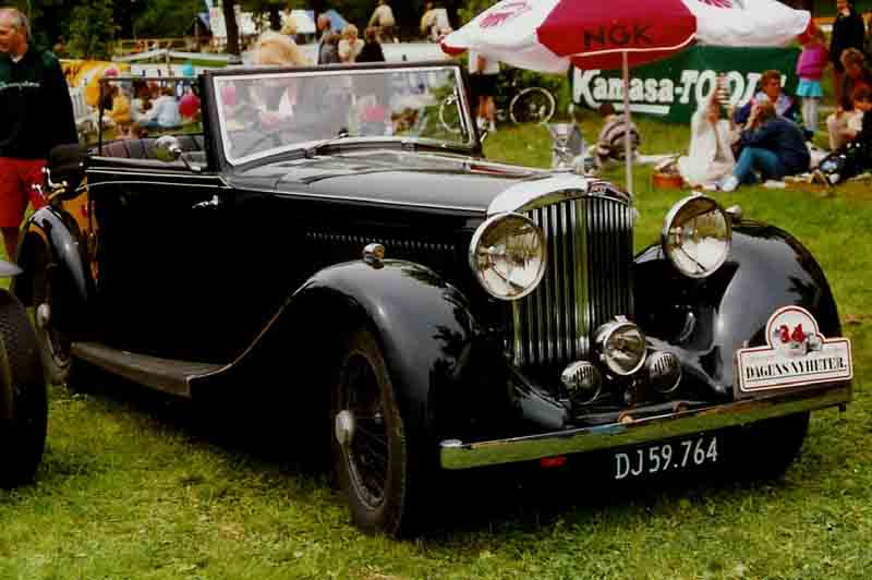 Bentley 3½-Litre Drophea Coupé 1935